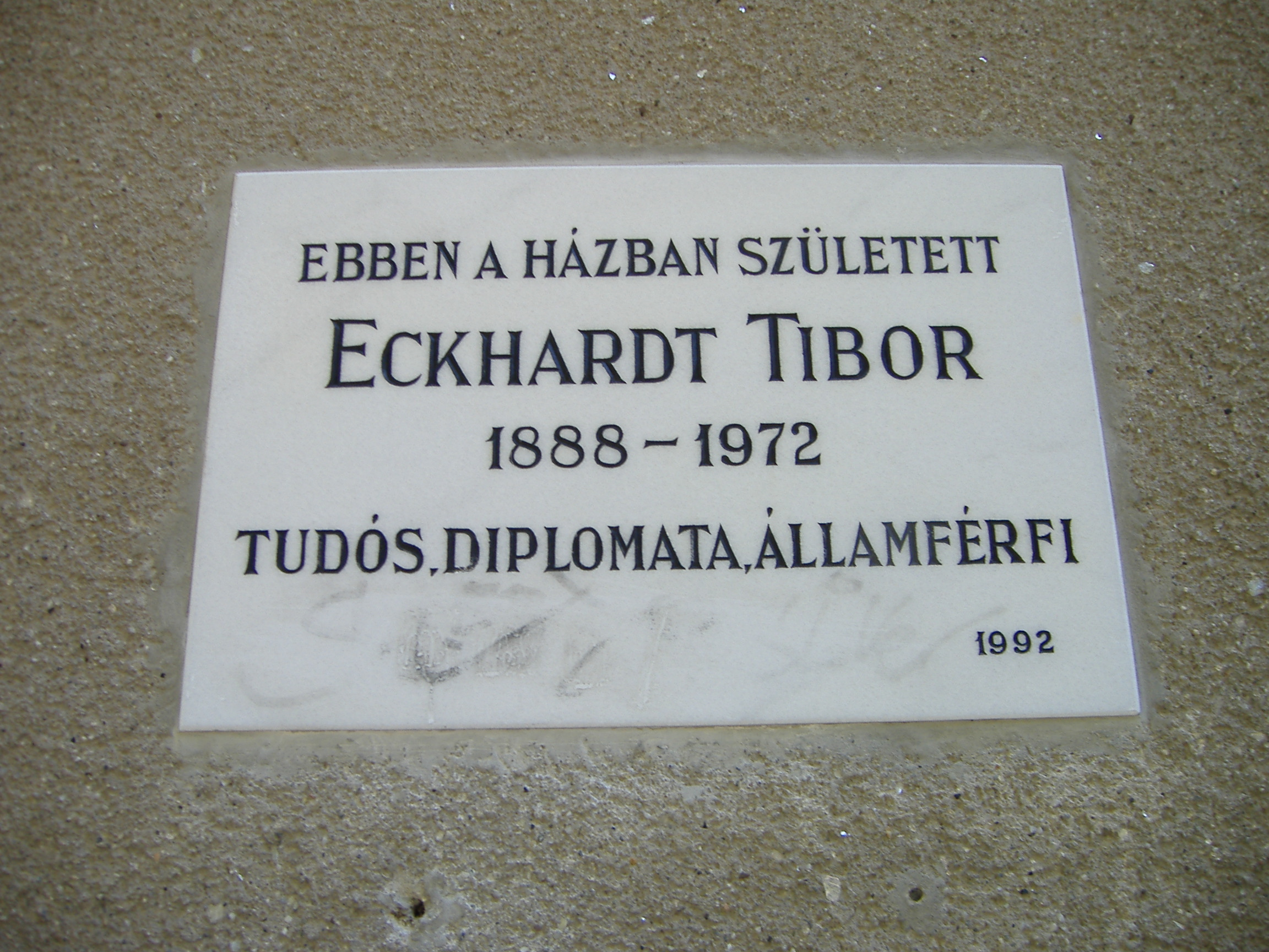 Memorial tablet in Makó, Hungary commemorating to Tibor Eckhardt, diplomat, politician.